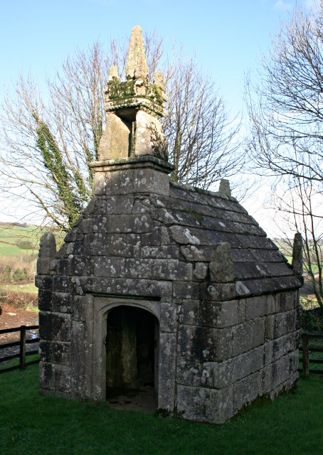 Dupath Well Chapel This holy well chapel is believed to have been built around 1510. It is made of granite, even the roof is made of large granite slabs. There is a legend that in an earlier age, this site is the place where two Saxon chiefs fought a duel to the death.